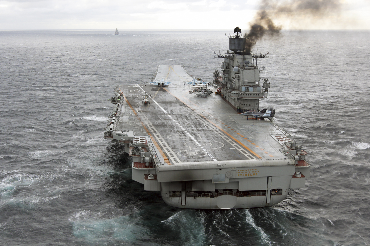 Russian aircraft carrier Admiral Kuznetsov.